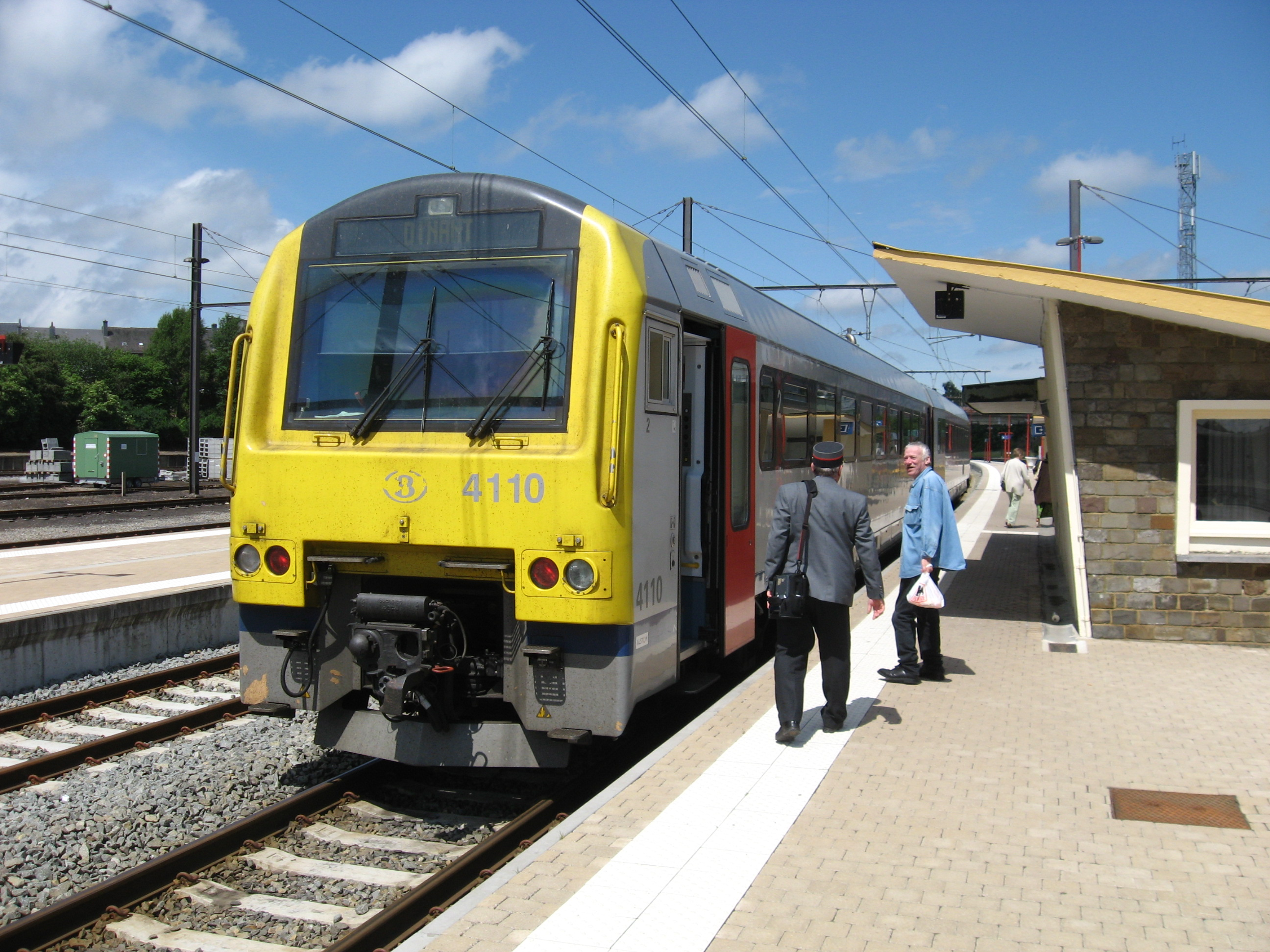 Dieselmultipleunit 4110 has arrived in Libramont from Bertrix.